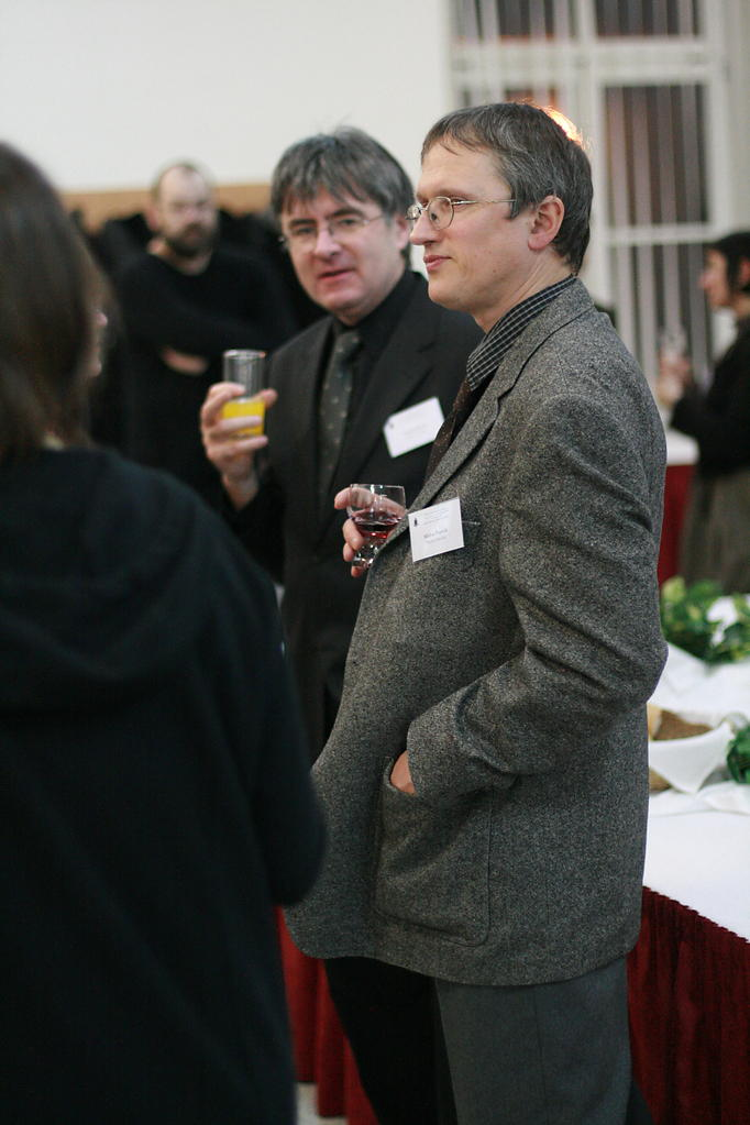 2010: 9th Brno International Conference of English, American and Canadian Studies